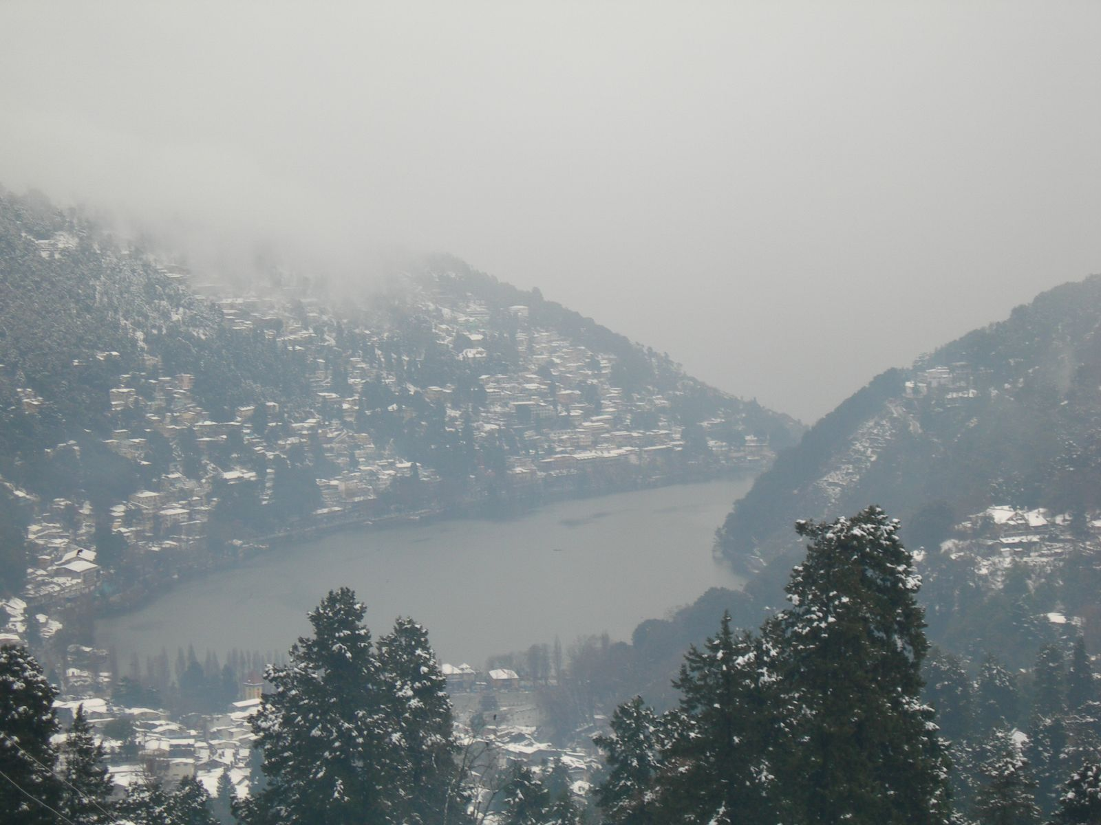 Place - Nainital, Uttaranchal, India Taken on the next day. there was a small hill at the back of the hotel. took this picture when we were almost at the top of that hill. what a difference in the scenery!